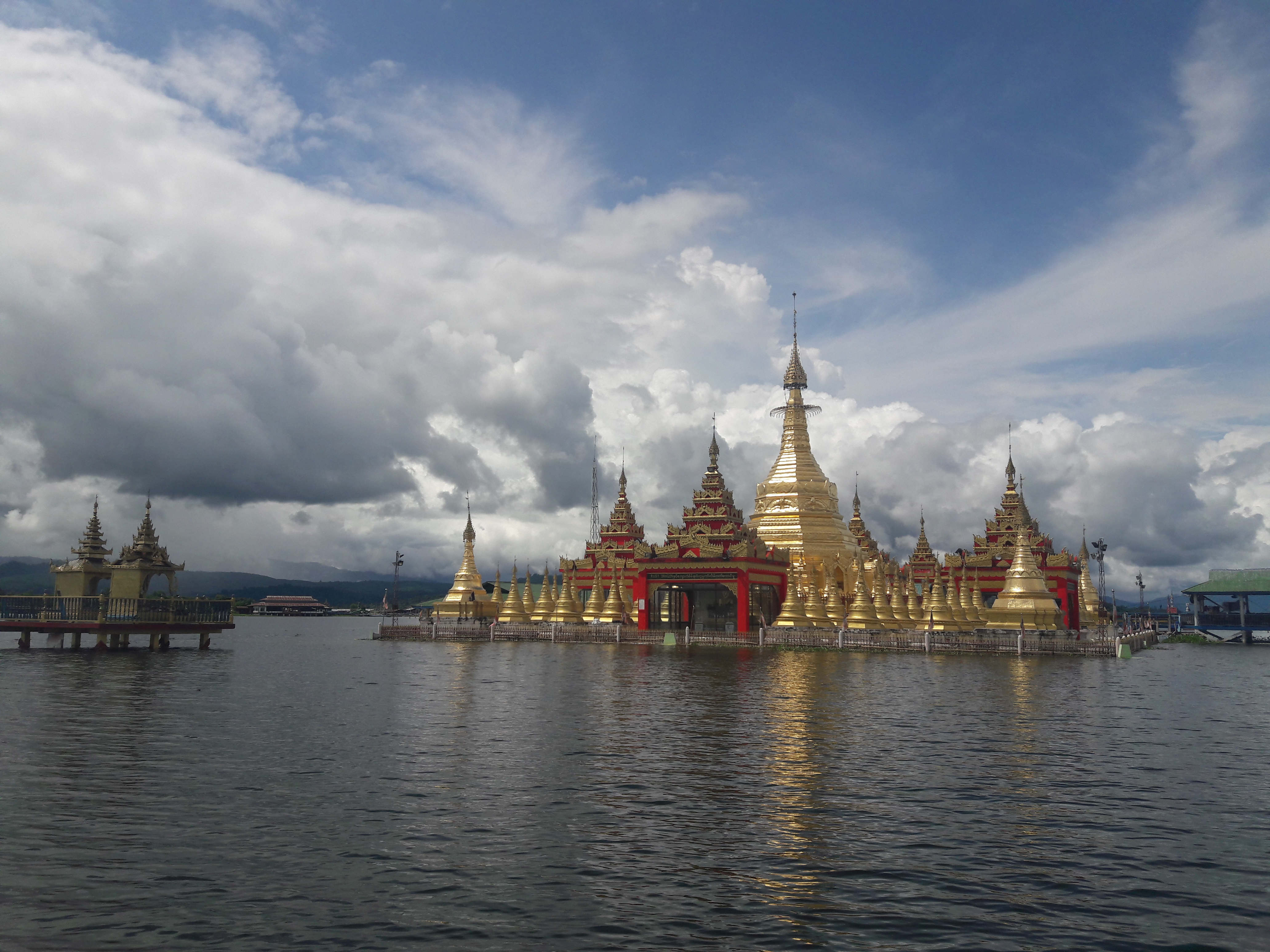 In Daw Gyi Lake at raining season